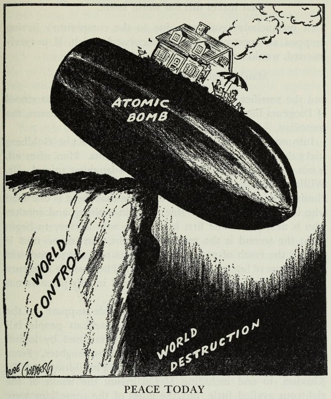 "Peace Today", an editorial cartoon commenting on the dangers of the atomic bomb. Winner of the 1948 Pulitzer Prize for Editorial Cartooning.